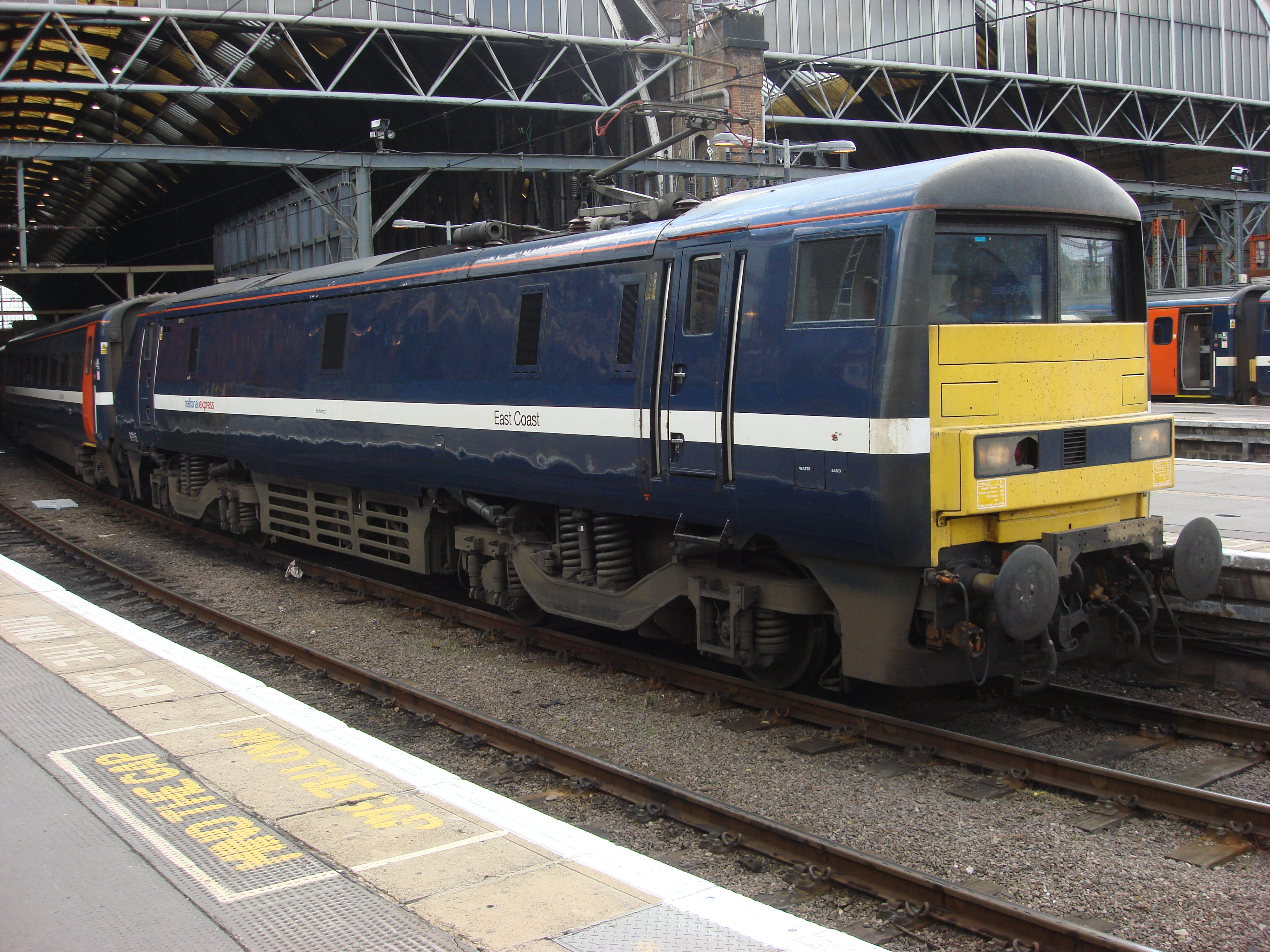 91115 operating flat-end first at Kings Cross. Class 91s have this asymmetric design so they can operate as normal locomotives, however they do not normally operate flat-end first because they are limited to 110 mph when operated this way.